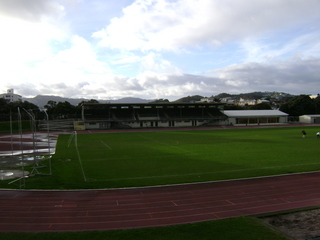 Newtown Park #1 field and grandstand, including athletics track - as seen from #2 field.